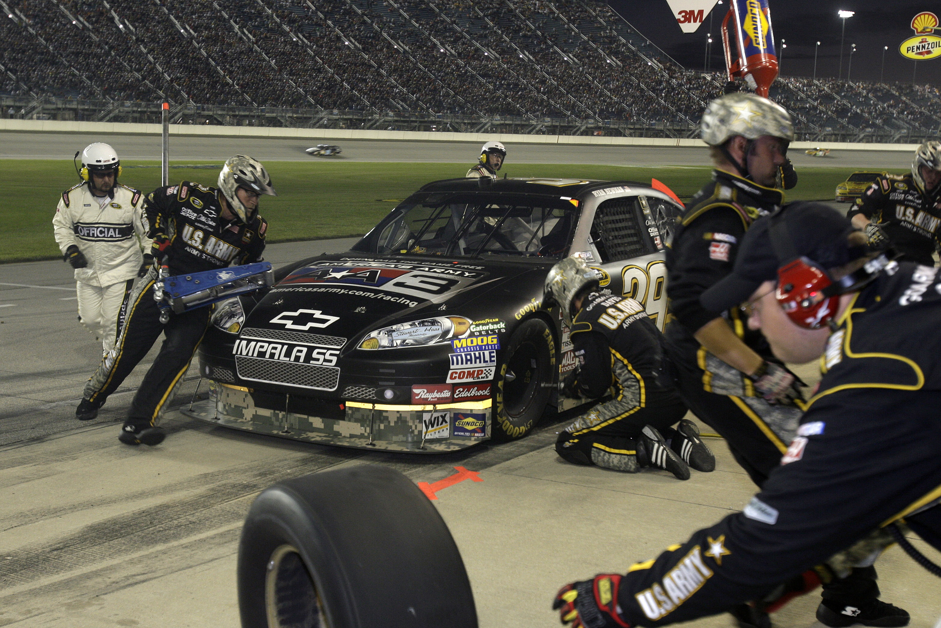 Ryan Newman pits his #39 Impala during the 2009 400 at Chicagoland Speedway.